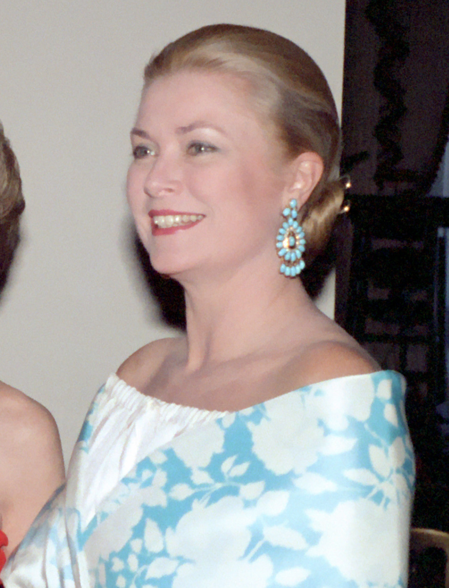 First Lady Nancy Reagan posing with Douglas Fairbanks, Jr. and Grace Kelly (Peter McCoy at far left) during a dinner at Winfield House during trip to London for the Royal Wedding of Prince Charles and Diana, Princess of Wales. depicted person: Grace Kelly (age: 51.70)